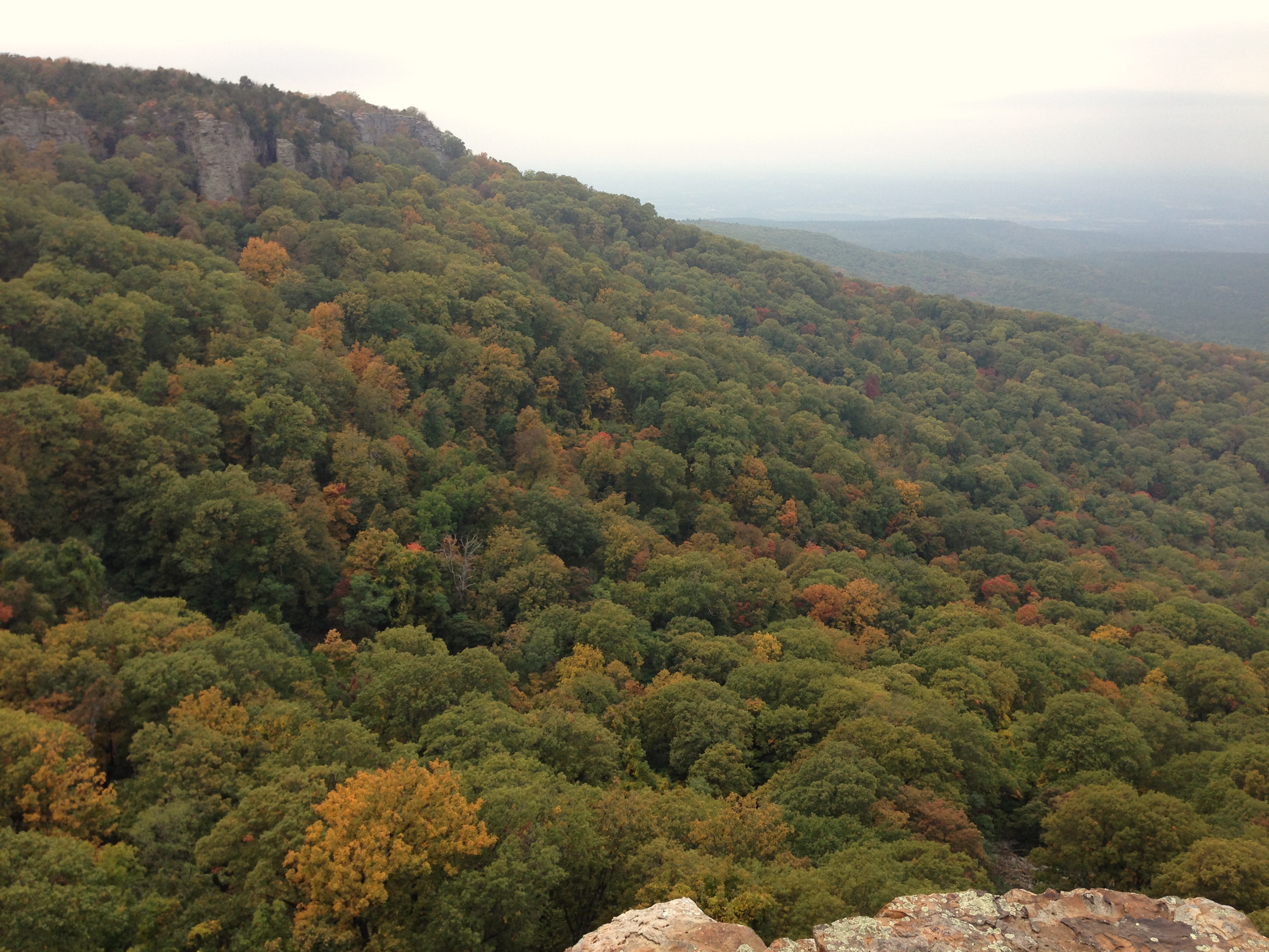 Mount Magazine in fall